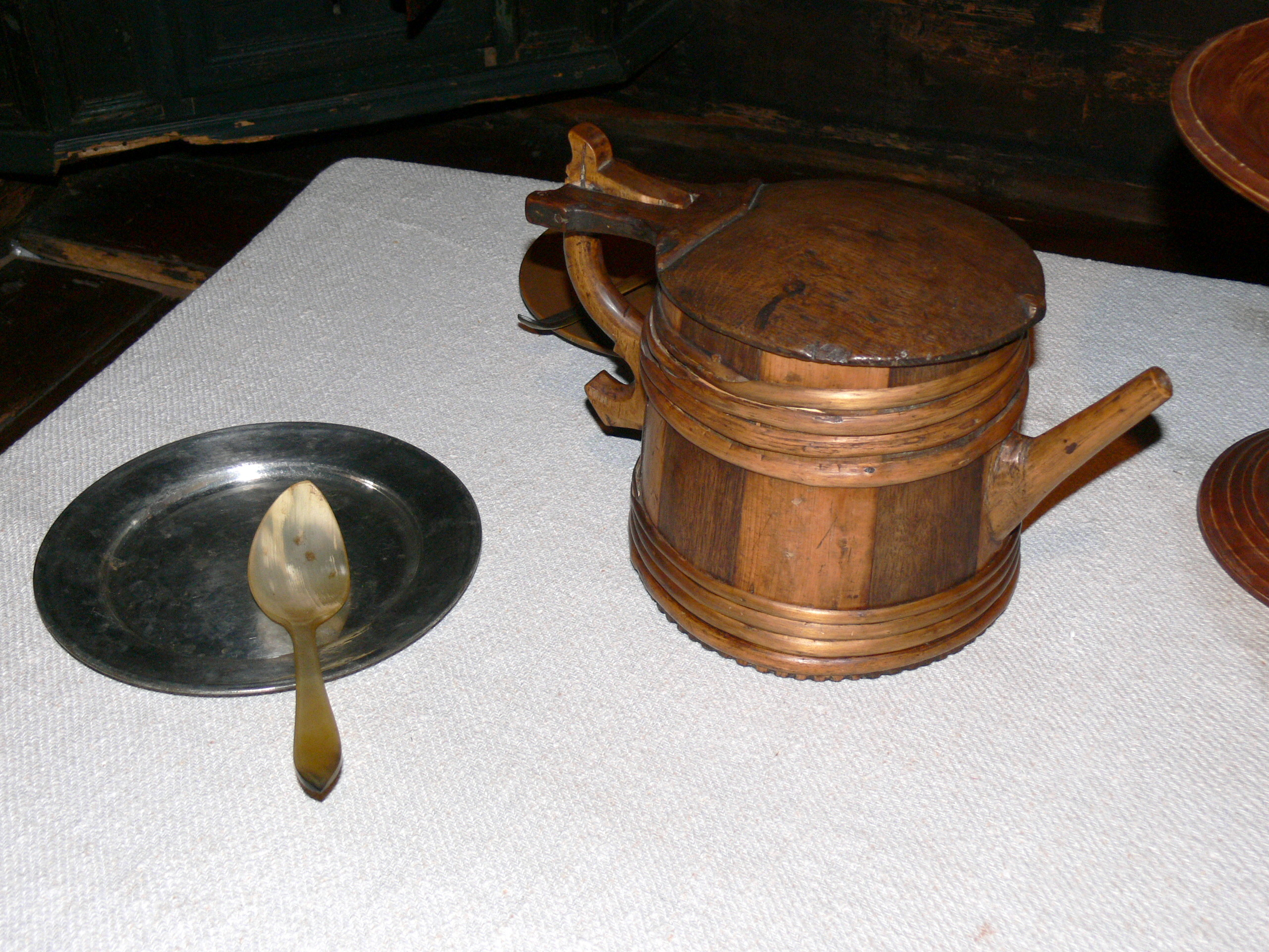 Open air museum Kulturen in Lund ( Sweden ). Rural life: Wooden jug, pewter plate and bone spoon.